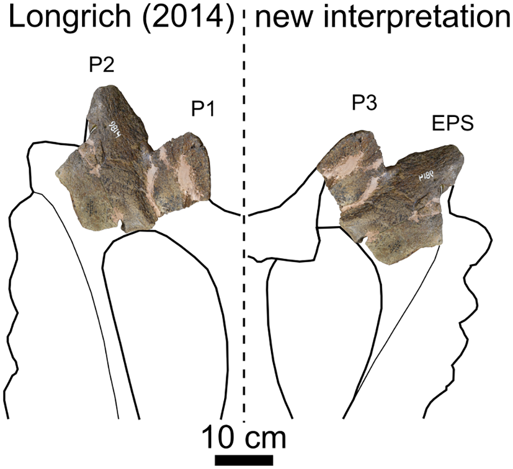 Interpretation of CMN 9813 (paratype of ‘Pentaceratops aquilonius’) in Longrich [72] (left) and the present study (right). In the right image, the specimen is mirrored about the midline to facilitate comparison. Note the differences in assumed epiossification homology. [Planned for column width].